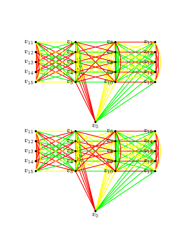 Two complete graphs on 16 vertices, whose edges are colored in three different colors, containing no monochromatic triangles. Original text: I originally created this image using METAPOST and LaTeX, resulting in a pdf. I later converted it to a gif a couple of years ago using some free conversion software from the internet. (I don't recall what conversion software I used).